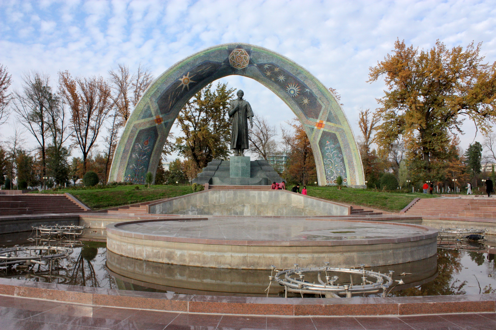 Rudaki Park, Dushanbe, Tajikistan